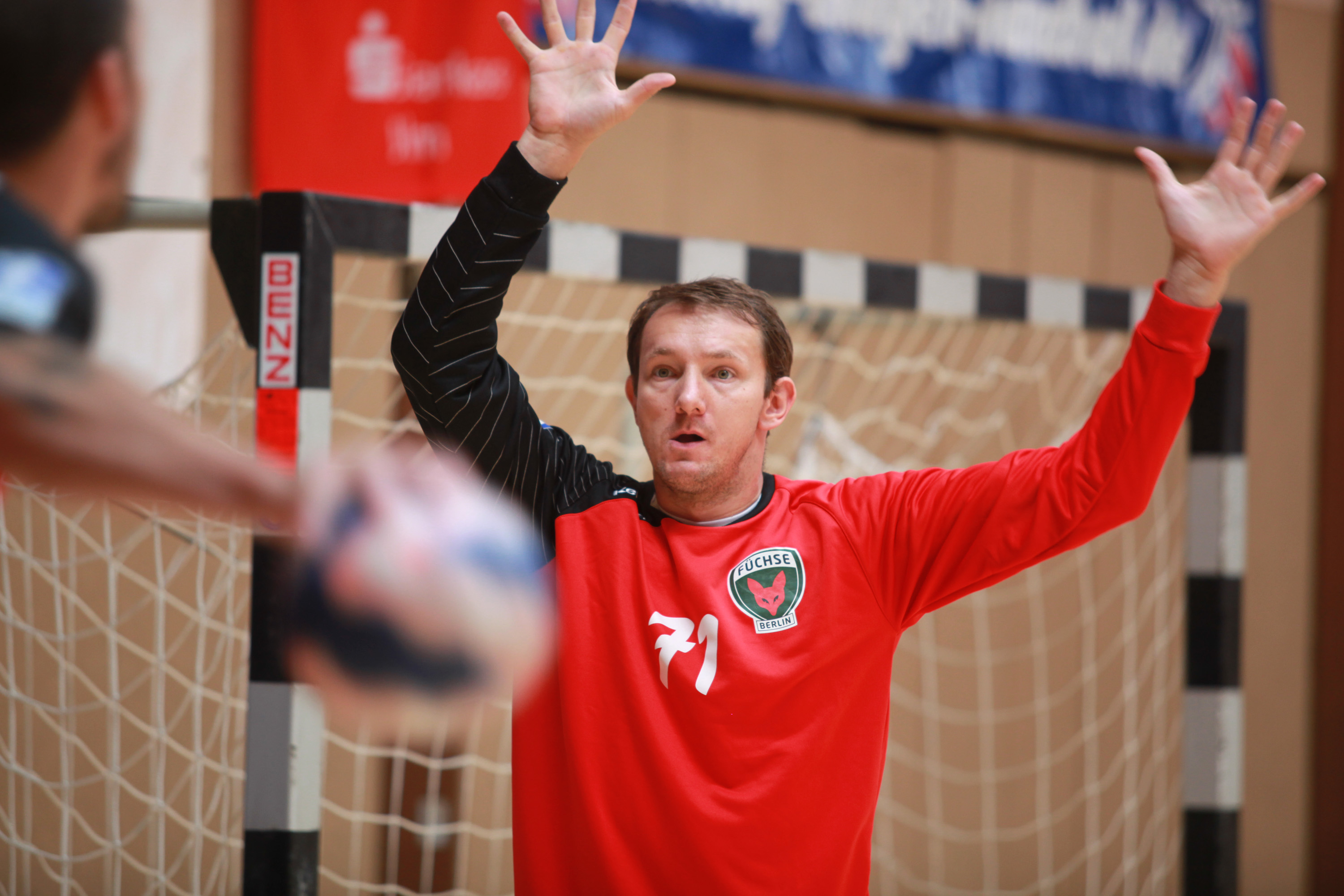 Petr Štochl, on August 17th, 2012 in Ehingen (Germany), during the Sparkassen Cup (formerly known as Schlecker Cup).